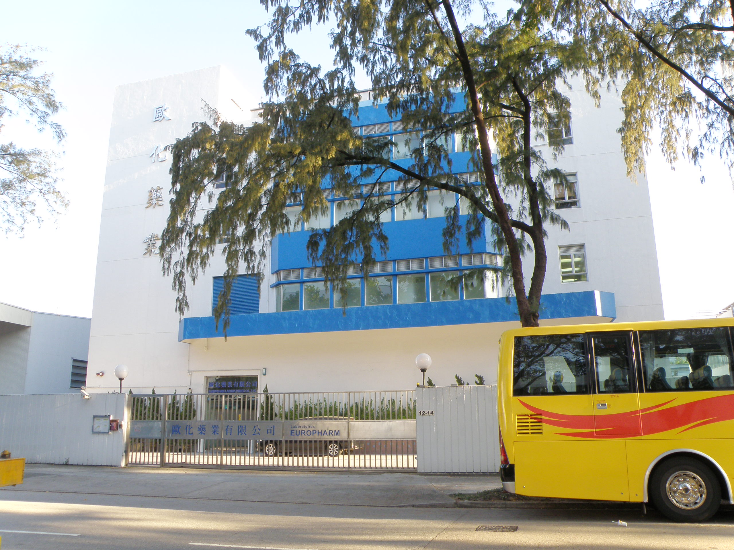 Europharm Laboratoires Company Limited in Tai Po, Hong Kong.